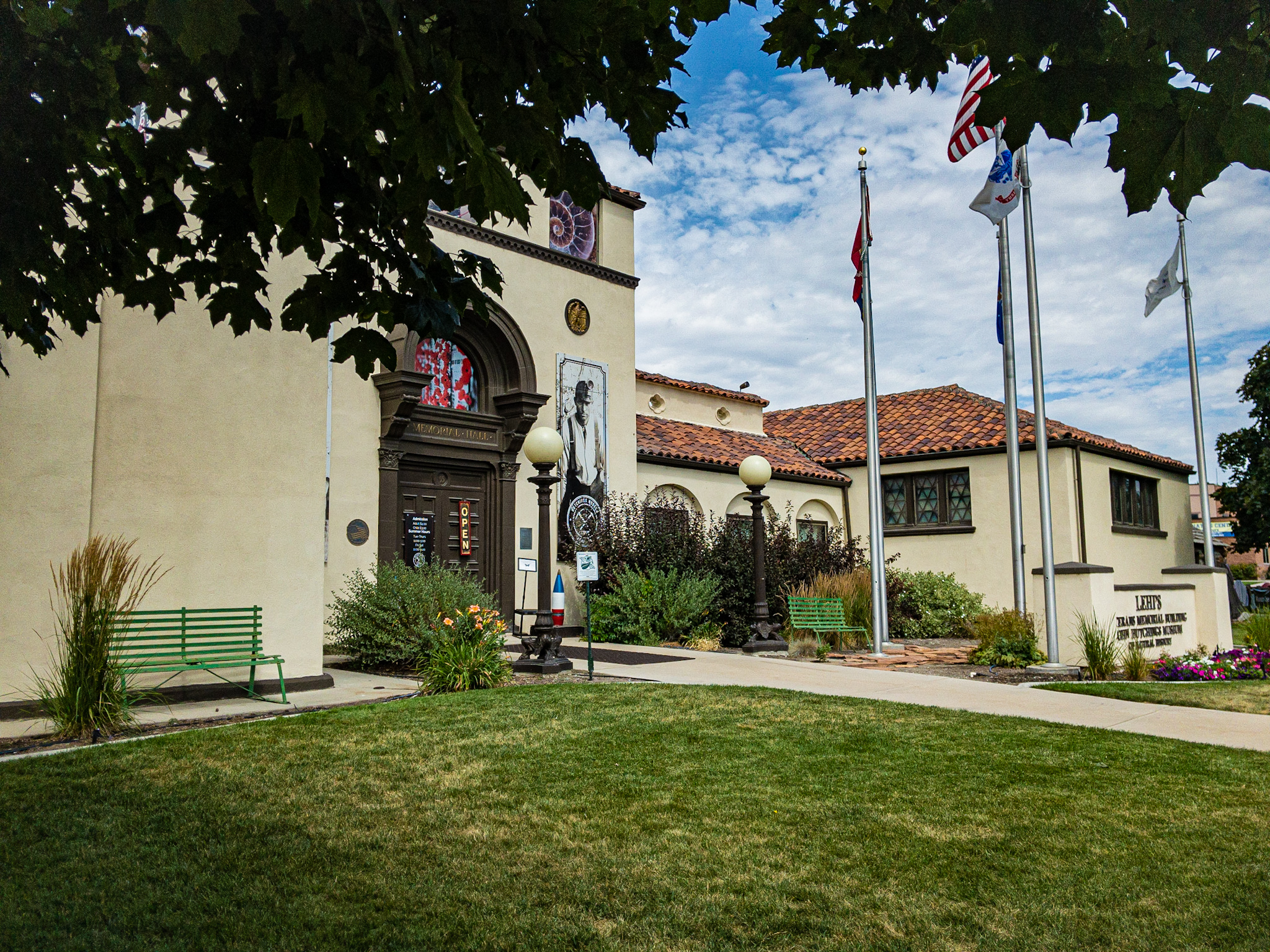 Veterans Memorial Building located at 55 North Center Street Lehi, UT. Currently houses the Hutchings Museum.